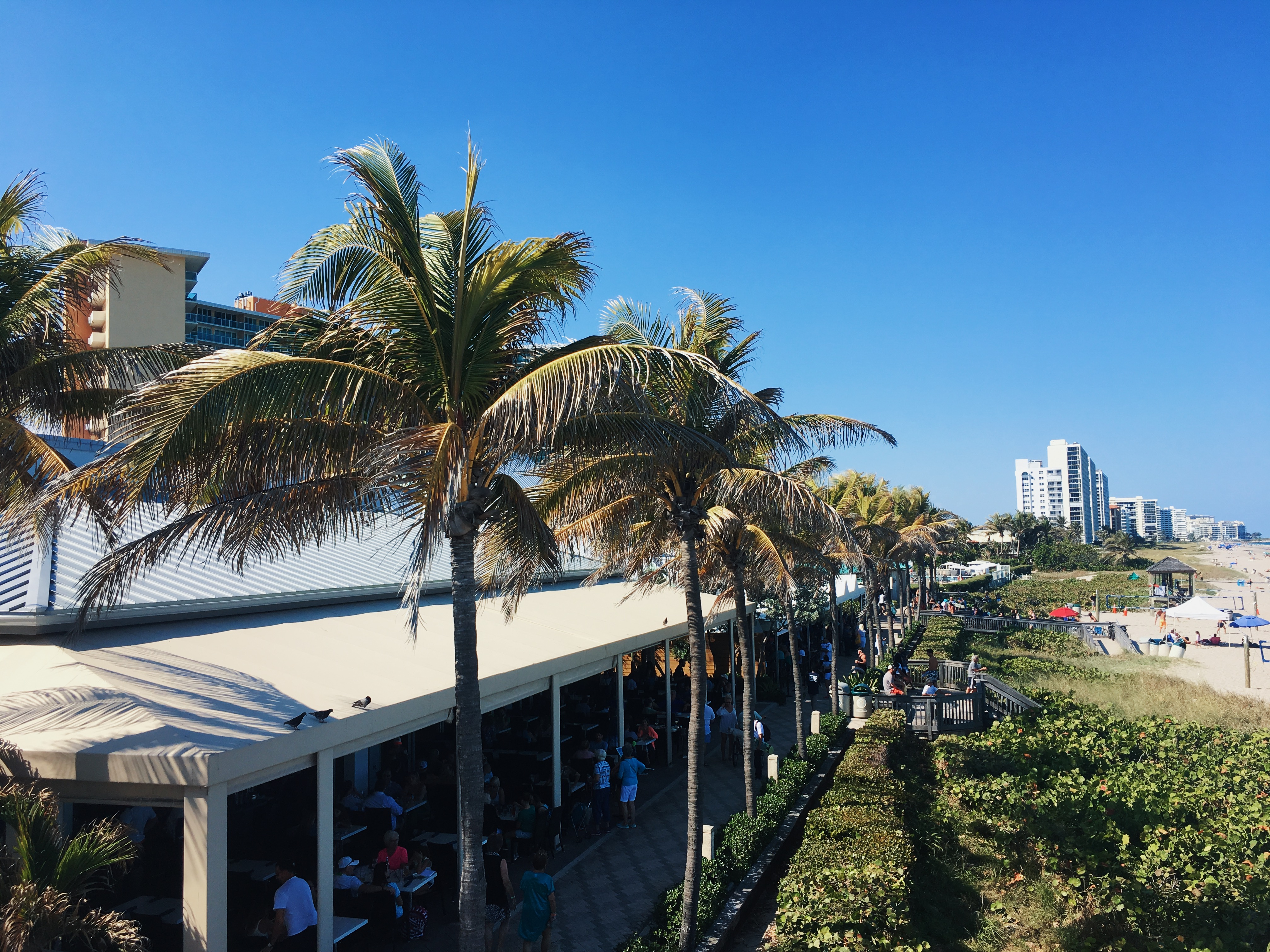 Restaurants along the boardwalk at Deerfield Beach